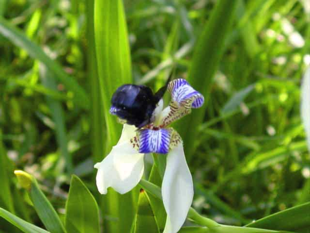 Bee pollenating a Neomarica candida. Photo by M. A. P. Accardo Filho.